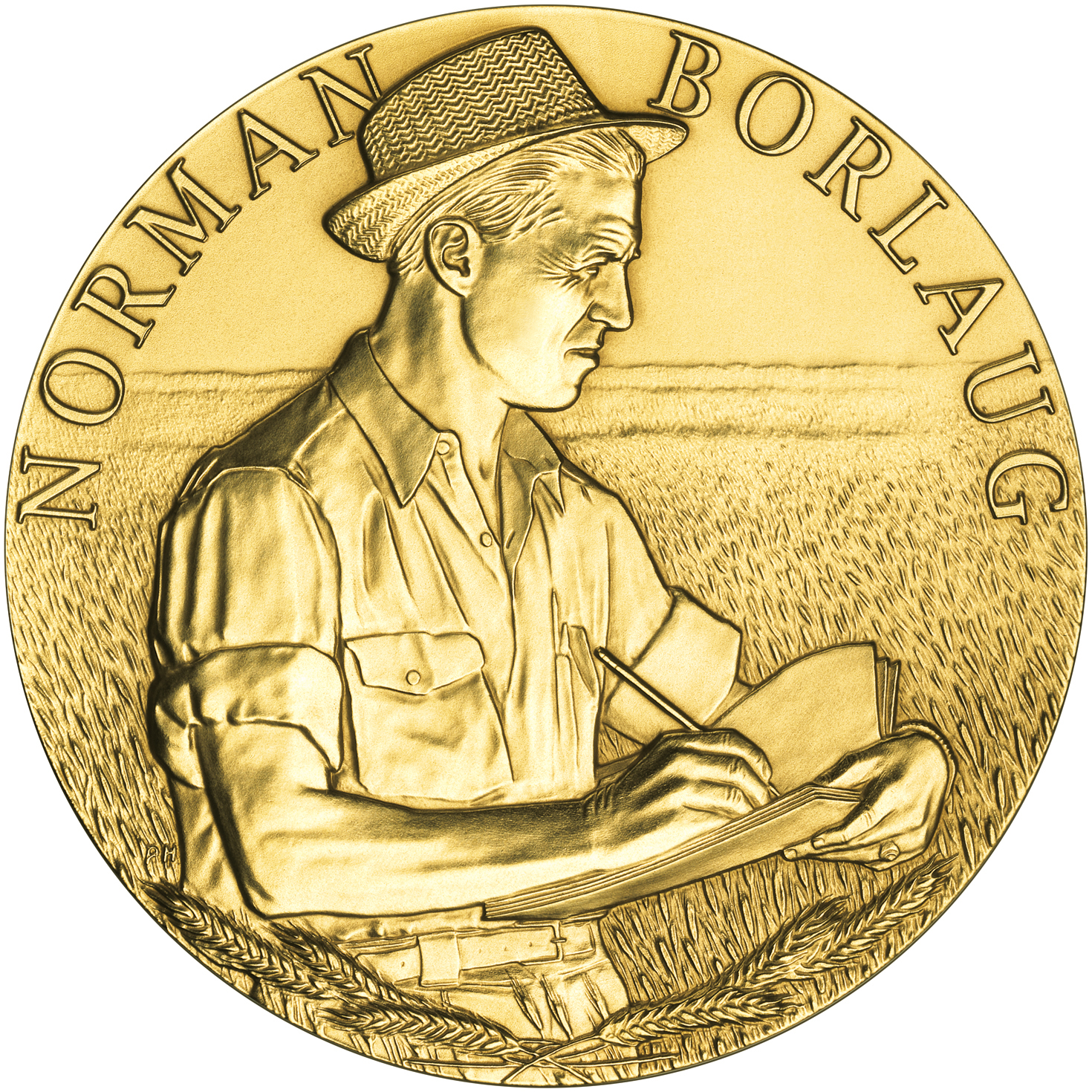 Front and Back of Congressional Gold Medal awarded to Norman Borlaug